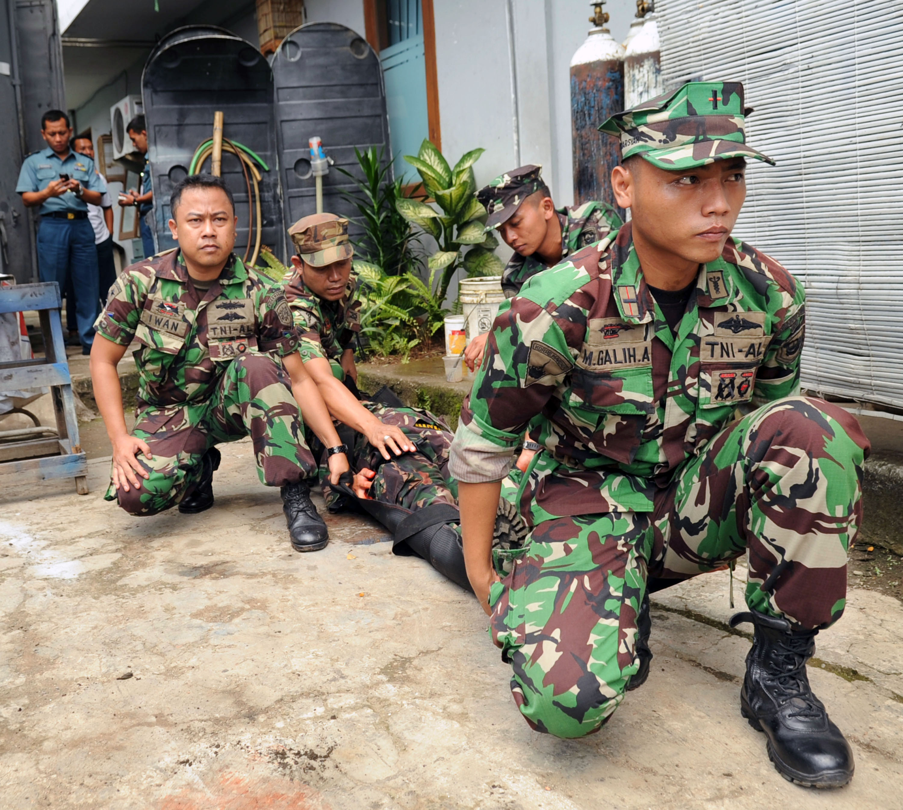 Indonesian sailors participate in a mass casualty training scenario as part of exercise Cooperation Afloat Readiness and Training (CARAT) Indonesia 2013 in Jakarta, Indonesia, May 24, 2013. CARAT is a series of bilateral exercises held annually in Southeast Asia to strengthen relationships and enhance force readiness.